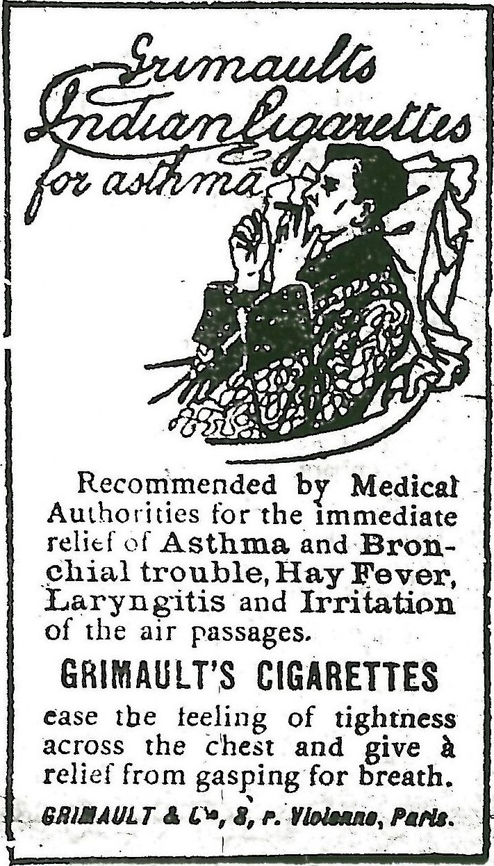 Advertisement for Grimault's Indian Cigarettes, published in the Ceylon Standard, June 8 1907. "Recommended by Medical Authorities for the immediate relief of Asthma and Bronchial trouble, Hay Fever, Laryngitis and Irritation of the air passages."